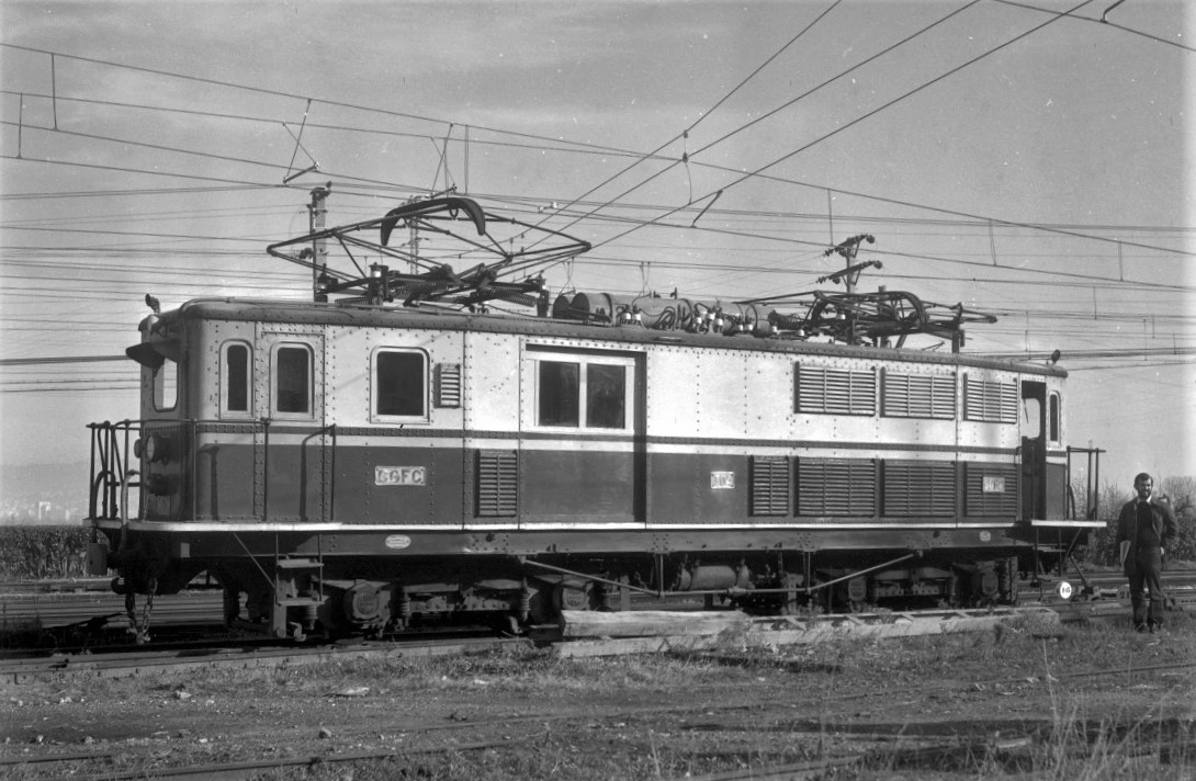 The electric locomotive 304 of the Compañía General de los Ferrocarriles Catalanes in the station of Sant Boi, in the colors dark blue, light blue and yellow stripe characteristic of the seventies.